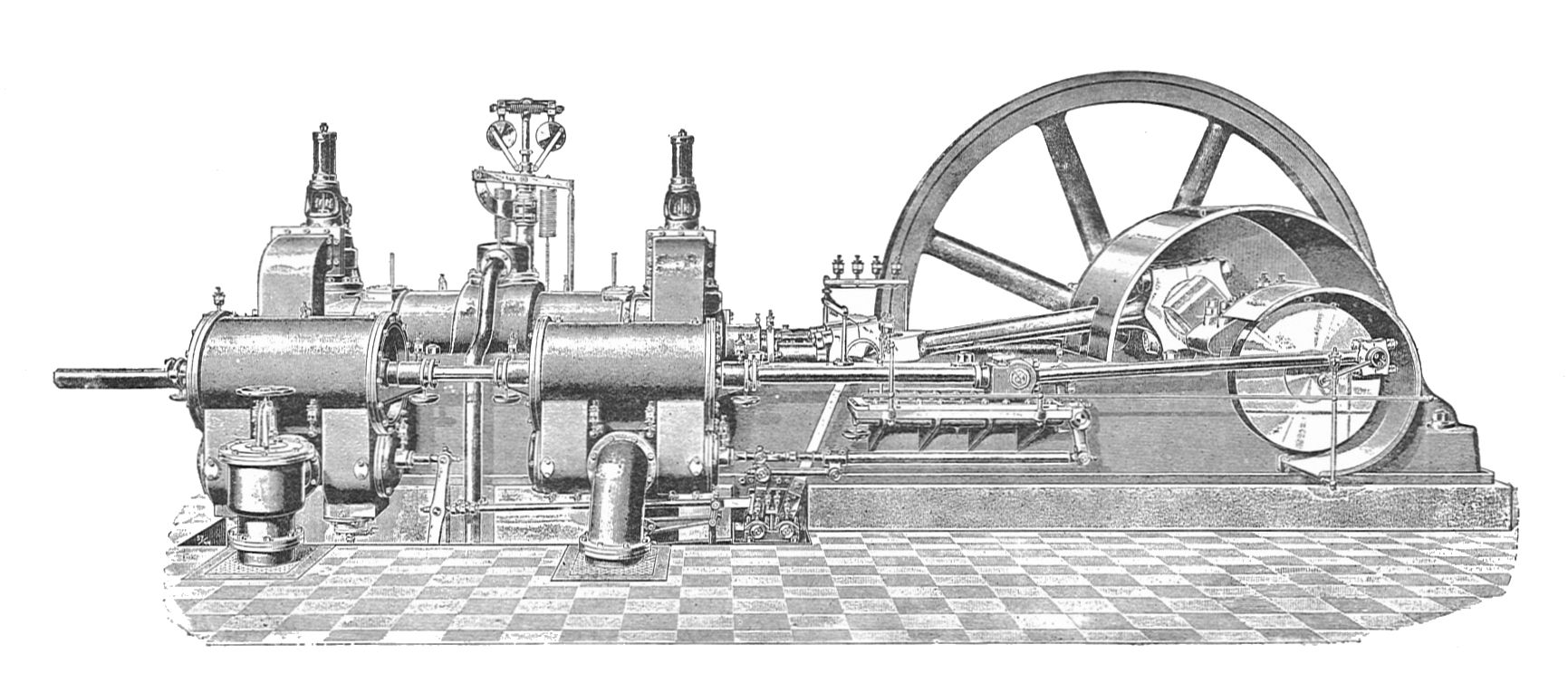 Körting gas engine (Rankin Kennedy, Electrical Installations, Vol III, 1903).jpg